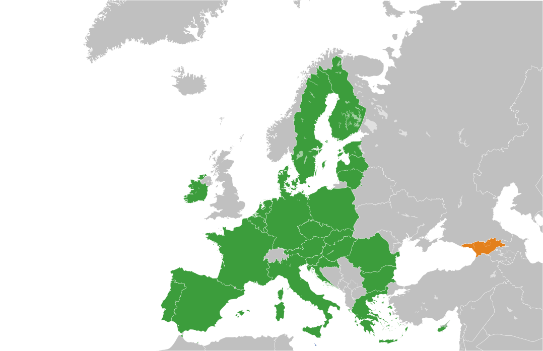 European Union - Georgia